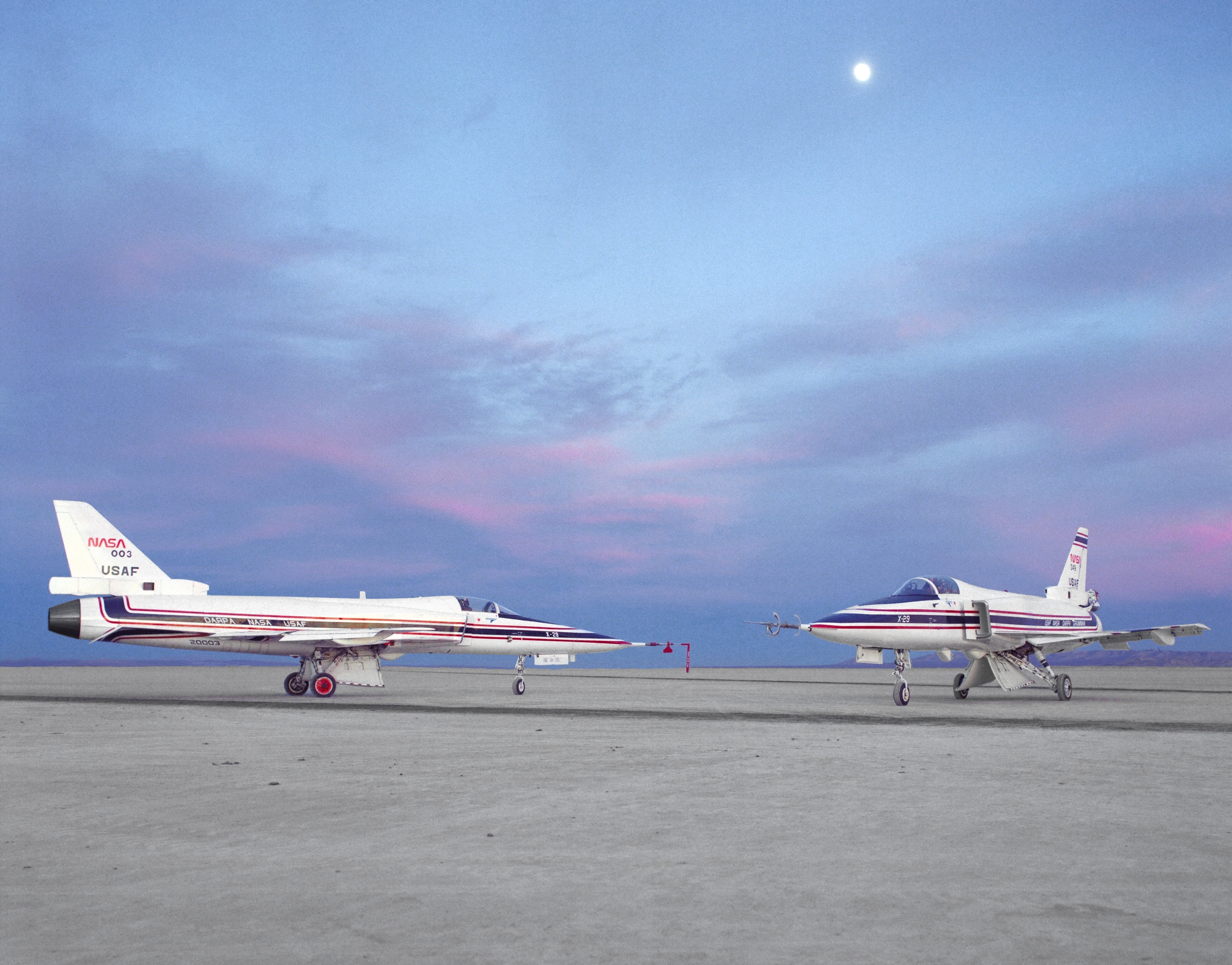 NASA's two X-29 research aircraft are seen here sitting nose-to-nose against the backdrop of a full-moon sky on Rogers Dry Lake. Adjacent to NASA's Ames-Dryden Flight Research Facility (later redesignated the Dryden Flight Research Center), Edwards, California.